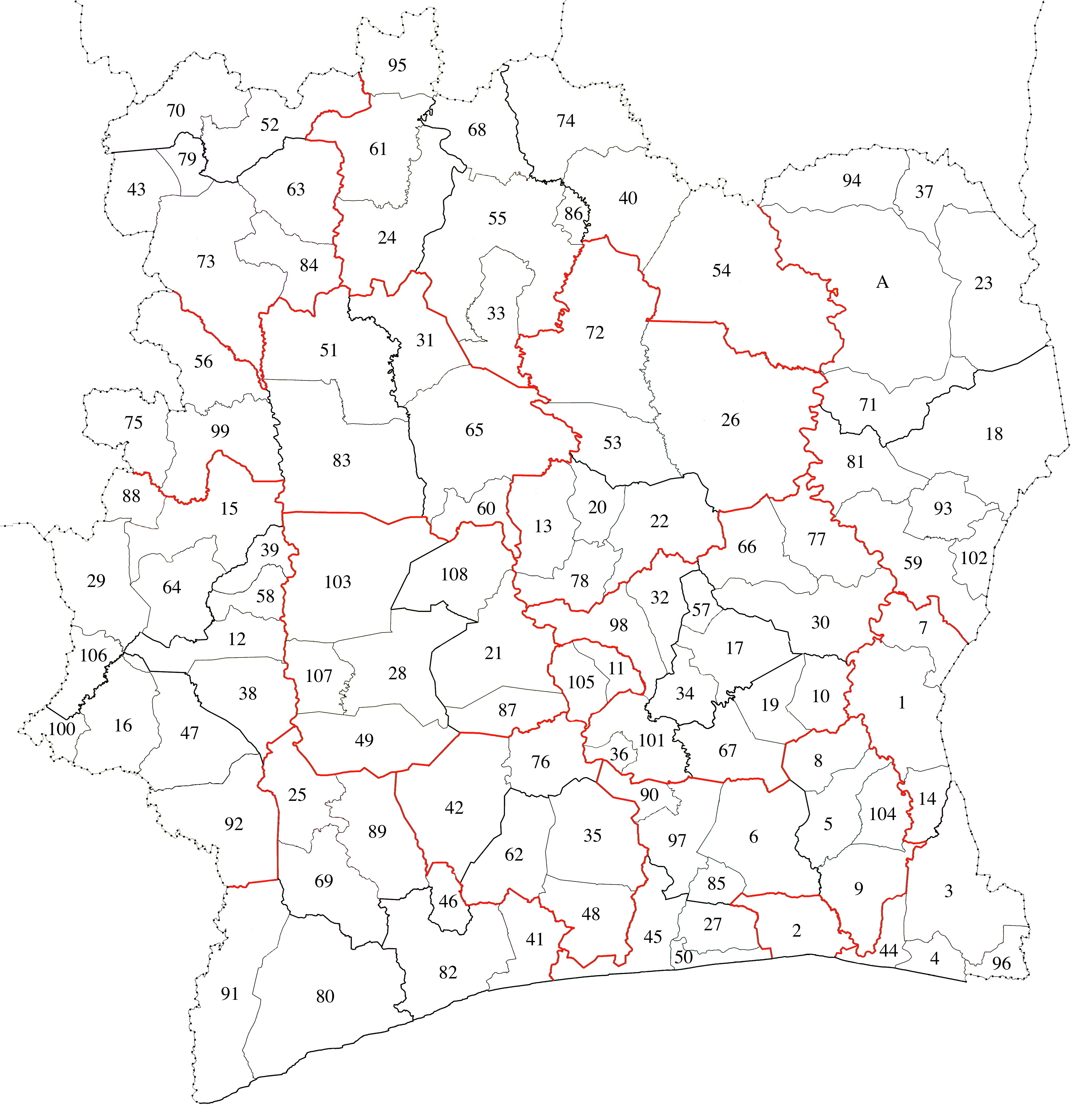 Locator map for the 108 departments of Côte d'Ivoire. Red lines indicate borders of the first-level districts. Bold black lines indicate borders of the second-level regions. Key: 1. Abengourou 2. Abidjan 3. Aboisso 4. Adiaké 5. Adzopé 6. Agboville 7. Agnibilékrou 8. Akoupé 9. Alépé 10. Arrah 11. Attiégouakro 12. Bangolo 13. Béoumi 14. Bettié 15. Biankouma 16. Bloléquin 17. Bocanda 18. Bondoukou 19. Bongouanou 20. Botro 21. Bouaflé 22. Bouaké 23. Bouna 24. Boundiali 25. Buyo 26. Dabakala 27. Dabou 28. Daloa 29. Danané 30. Daoukro 31. Dianra 32. Didievi 33. Dikodougou 34. Dimbokro 35. Divo 36. Djékanou 37. Doropo 38. Duékoué 39. Facobly 40. Ferkessédougou 41. Fresco 42. Gagnoa 43. Gbéléban 44. Grand-Bassam 45. Grand-Lahou 46. Guéyo 47. Guiglo 48. Guitry 49. Issia 50. Jacqueville 51. Kani 52. Kaniasso 53. Katiola 54. Kong 55. Korhogo 56. Koro 57. Kouassi-Kouassikro 58. Kouibly 59. Koun-Fao 60. Kounahiri 61. Kouto 62. Lakota 63. Madinani 64. Man 65. Mankono 66. M'Bahiakro 67. M'Batto 68. M'Bengué 69. Méagui 70. Minignan 71. Nassian 72. Niakaramandougou 73. Odienné 74. Ouangolodougou 75. Ouaninou 76. Oumé 77. Prikro 78. Sakassou 79. Samatiguila 80. San-Pédro 81. Sandégué 82. Sassandra 83. Séguéla 84. Séguélon 85. Sikensi 86. Sinématiali 87. Sinfra 88. Sipilou 89. Soubré 90. Taabo 91. Tabou 92. Taï 93. Tanda 94. Téhini 95. Tengréla 96. Tiapoum 97. Tiassalé 98. Tiébissou 99. Touba 100. Toulépleu 101. Toumodi 102. Transua 103. Vavoua 104. Yakassé-Attobrou 105. Yamoussoukro 106. Zouan-Hounien 107. Zoukougbeu 108. Zuénoula A. Portion of Comoé National Park in Zanzan District (territory is not assigned to any department)